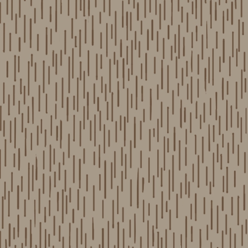 Rain pattern (East German 1968 Strichmuster)